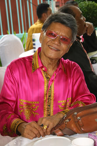 Datuk Ahmad Jais, a famous singer of Malaysia